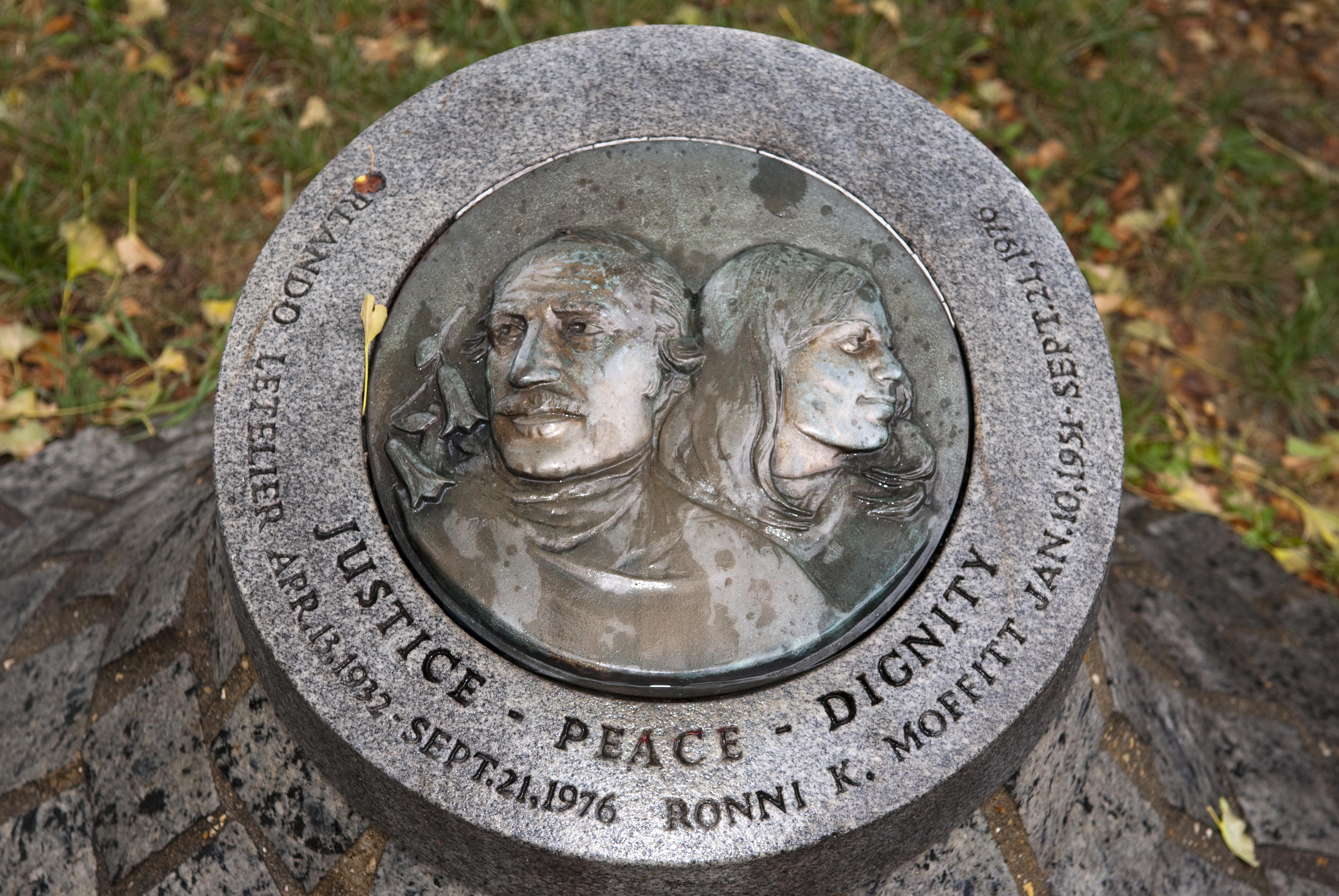 Orlando Letelier / Ronni K Moffit Memorial Massachusetts Ave / at Sheridan Circle, SW side. Memorial de Orlando Letelier en el lugar que fue asesinado: Sheridan Circle, Washington DC.